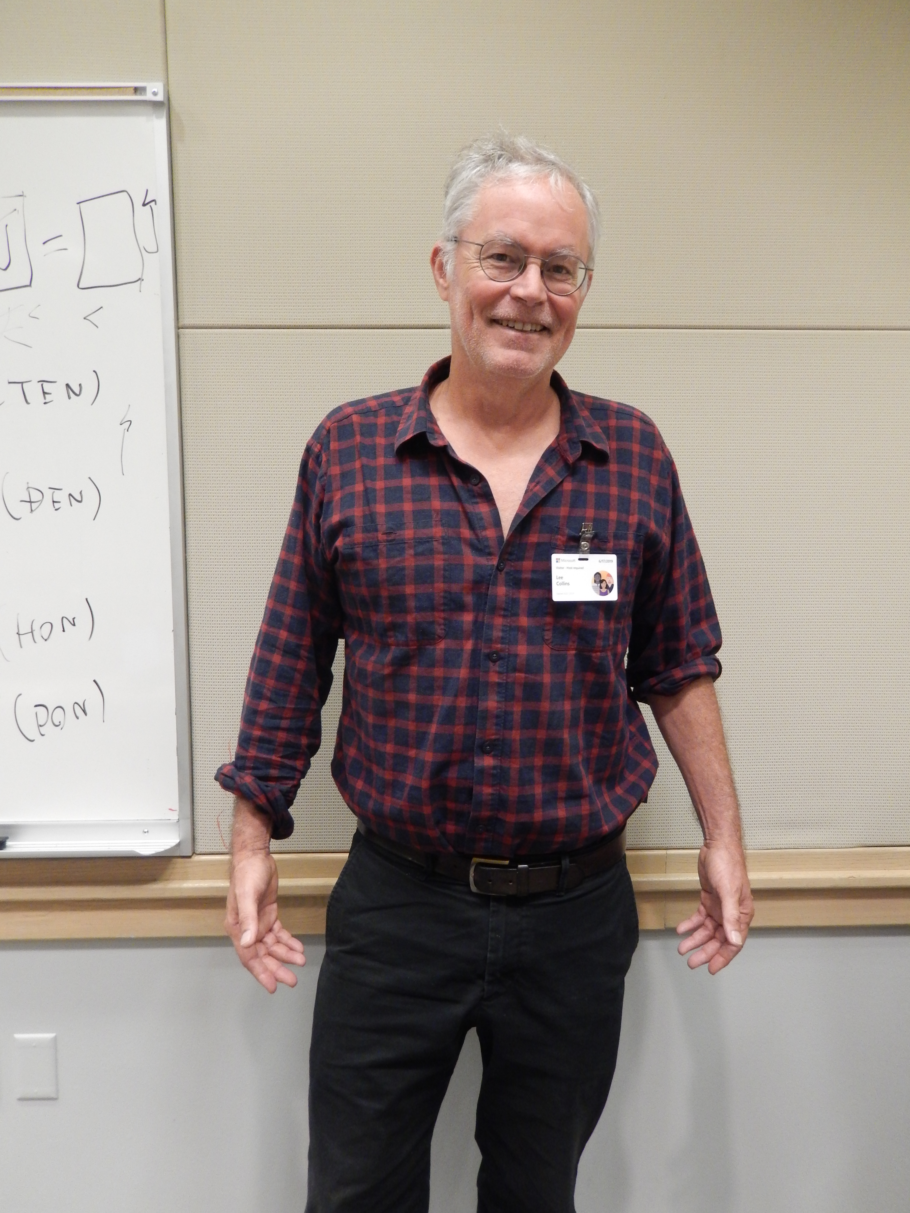 Lee Collins at ISO/IEC JTC1/SC2/WG2 Meeting 68 hosted at Microsoft in Redmond, Washington, USA, 17-21 June 2019.